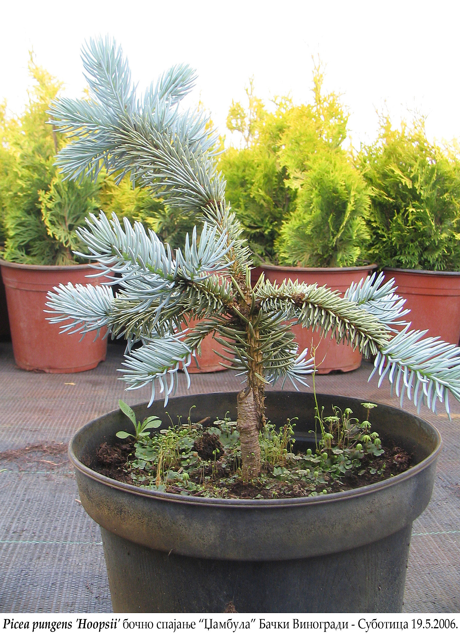 Picea pungens 'Hoopsii' side grafting in Dzambula nursery, Subotica (Serbia)